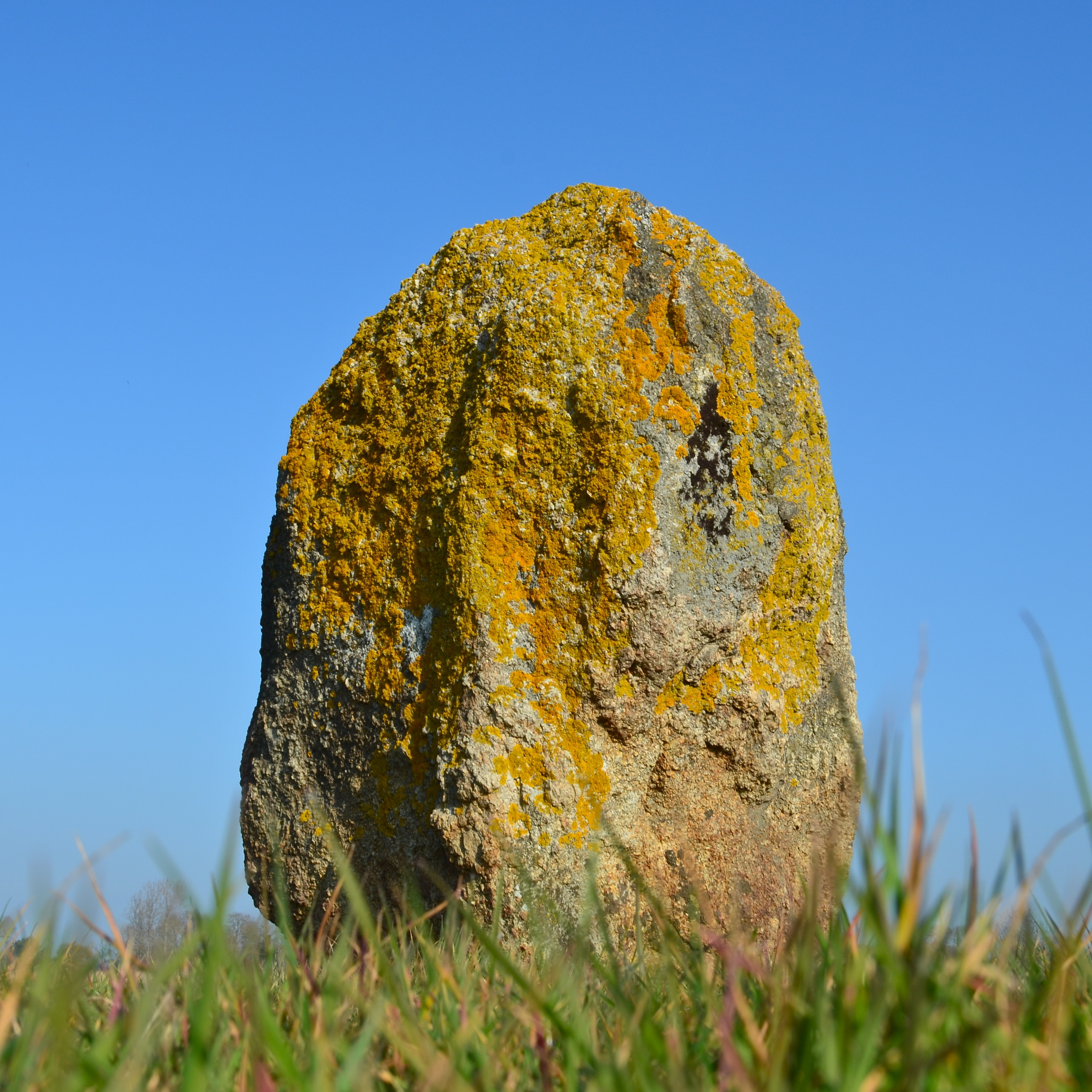 Pierre-Bonde menhir - Corsept, Loire-Atlantique (France)